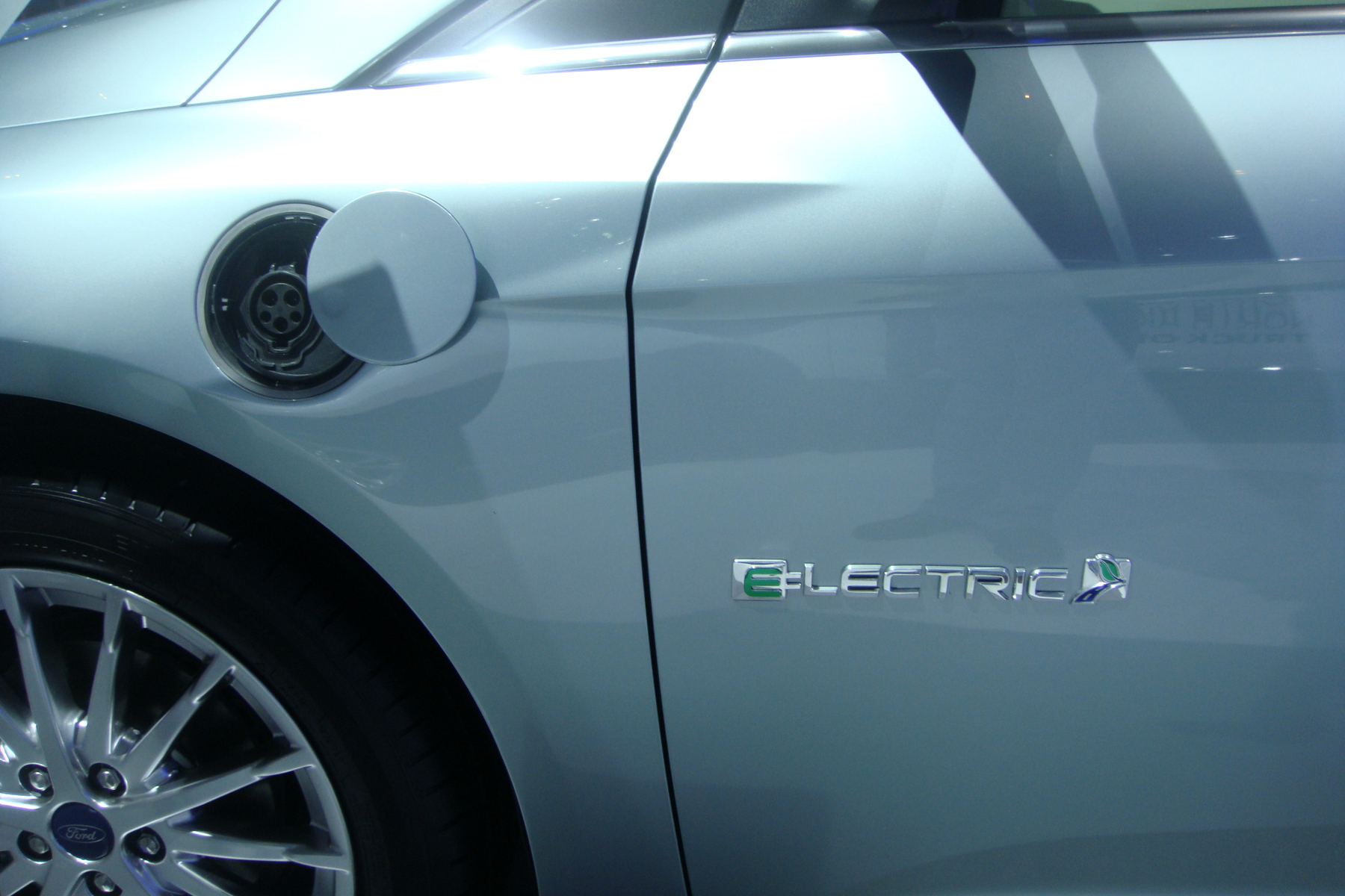 Zoom in charging port and Ford's road leaf logo for electric cars from a 2012 Ford Focus Electric exhibited at the 2011 Washington Auto Show